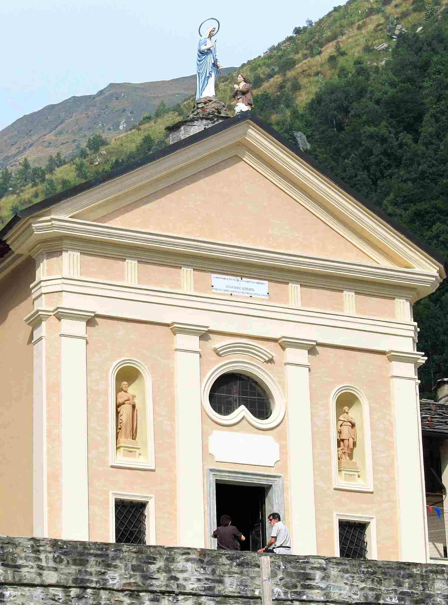 Santuario di Prascondù (TO, Italy): facade of the church Piemontèis: Ël santuari ëd Prascondù